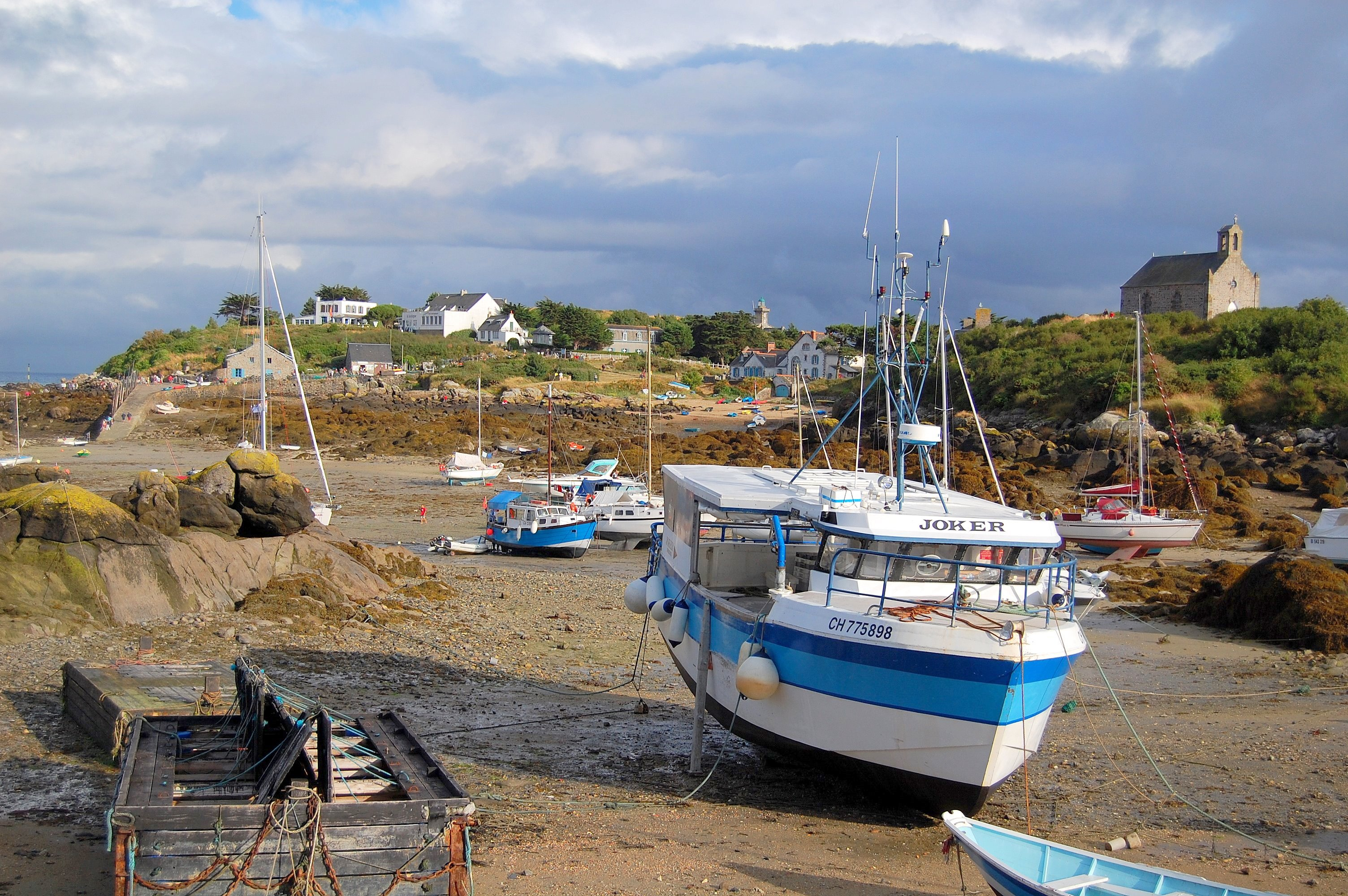 Fishing boat at low tide Chausey Island, France